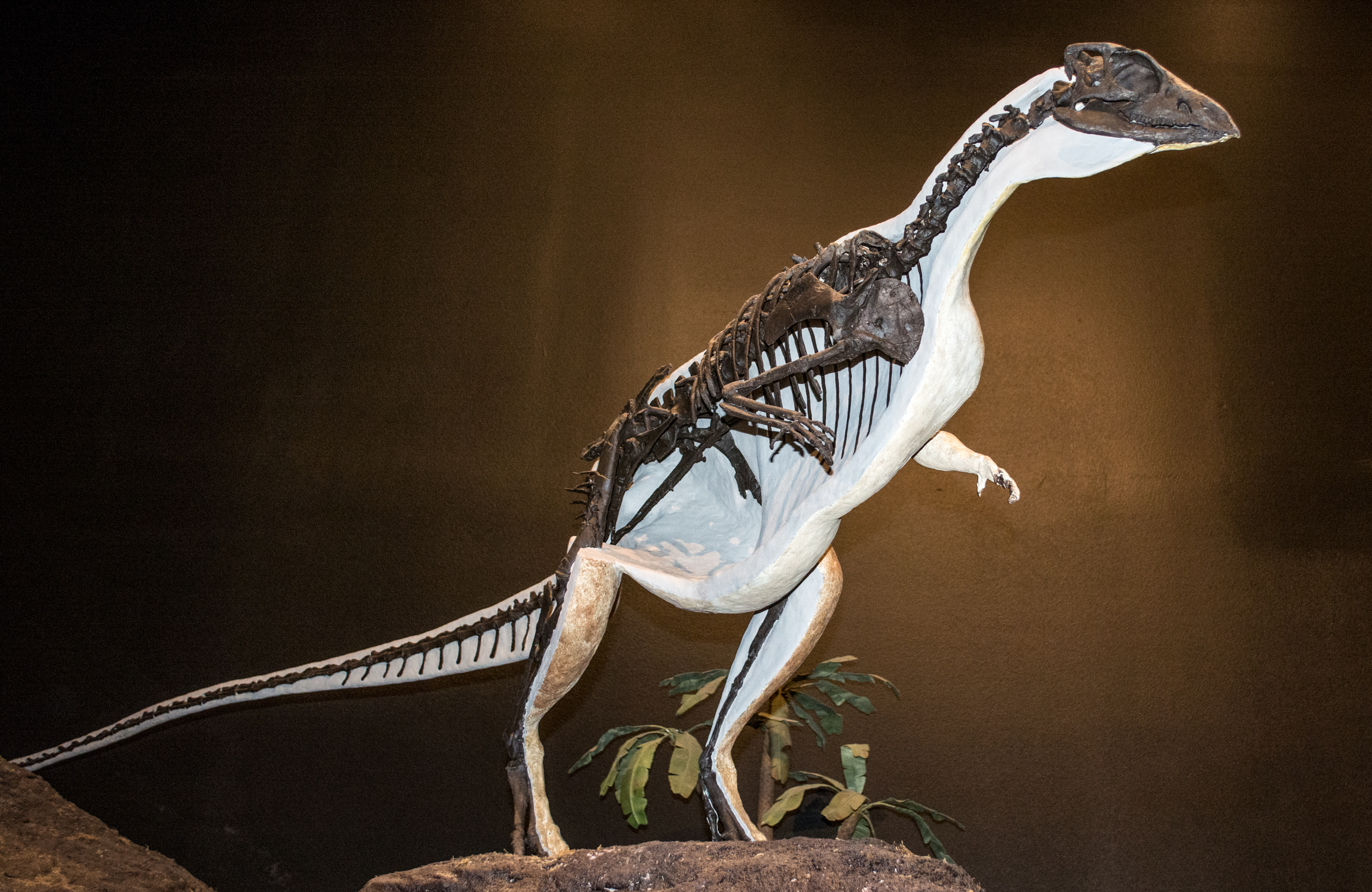 Oryctodromeus cubicularis - Museum of the Rockies